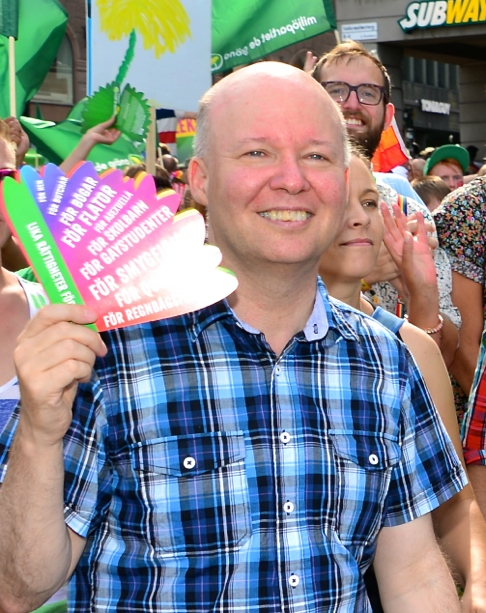 Stefan Nilsson (Green Party) is a member of the Swedish Parliament